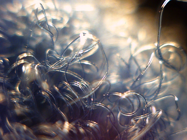 Photograph showing the loops of a piece of Velcro. Taken using a web camera in macro mode.